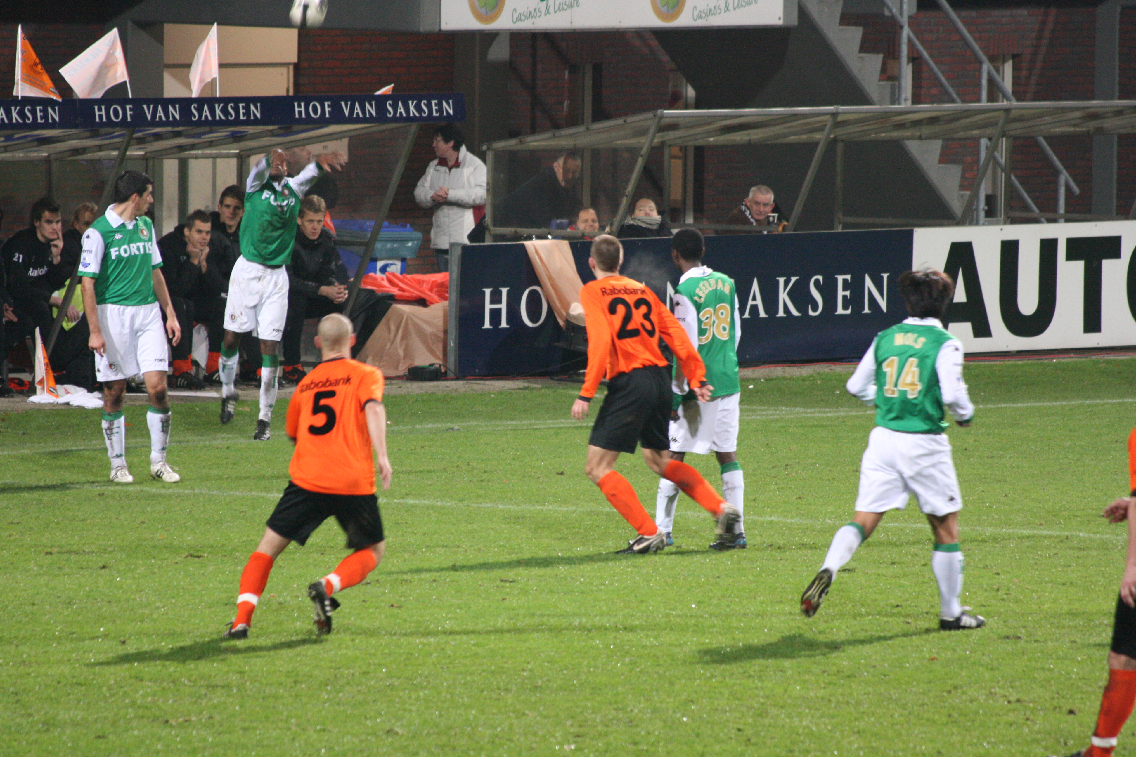 Fragment of the match between HHC Hardenberg and Feyenoord that toke place on the 13th of November, 2008. The match was for the third round of the KNVB-cup. The match was played in the stadium of Emmen.